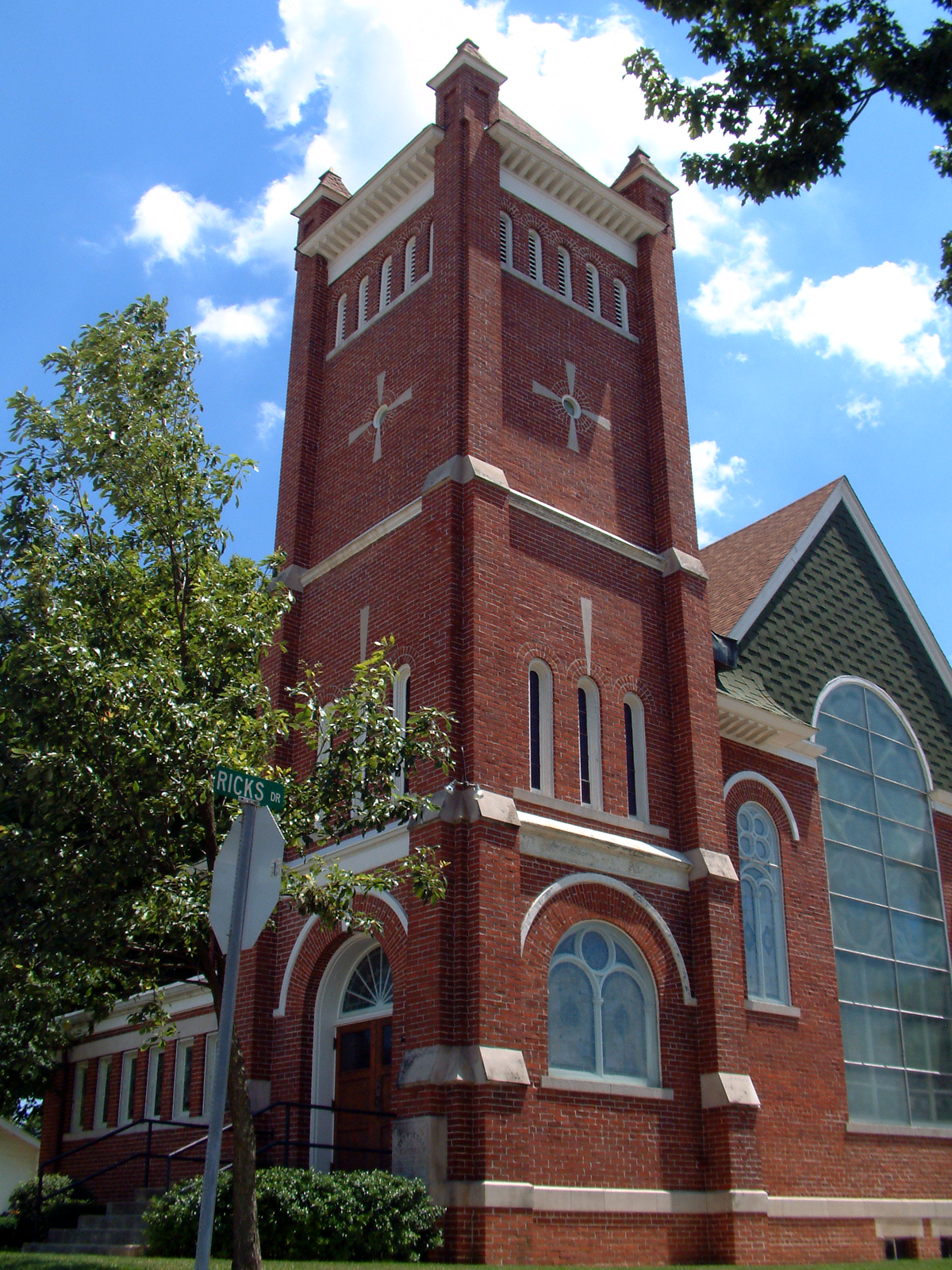 Memorial Presbyterian Church, at the corner of Walnut Street and Ricks Drive in Dayton, Indiana. Photo looks southeast.